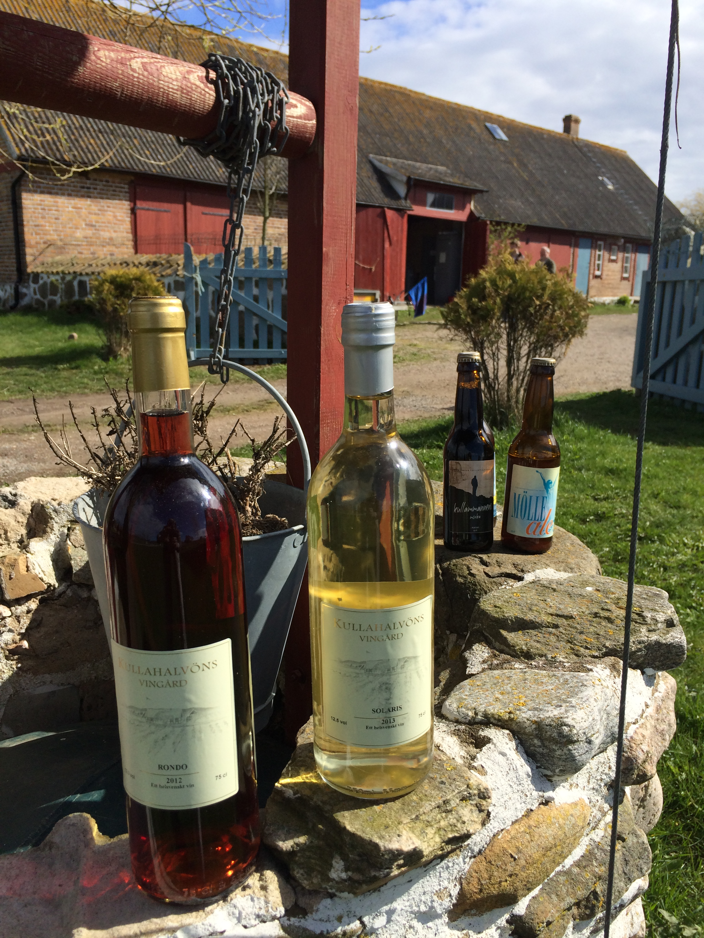 Wine and beer produced in Scania, Sweden